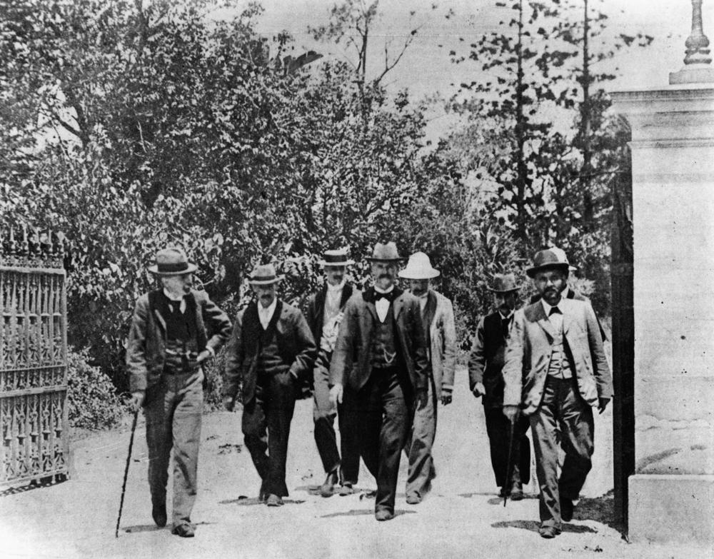 After the swearing in of the Dawson ministry of the Labor Party Brisbane, Queensland Hon. Anderson (Andrew) Dawson's ministry leaving Government House after the swearing in ceremony. All are members of the Australian Labour Party. The men are dressed in suits, waistcoats, ties and wearing hats.